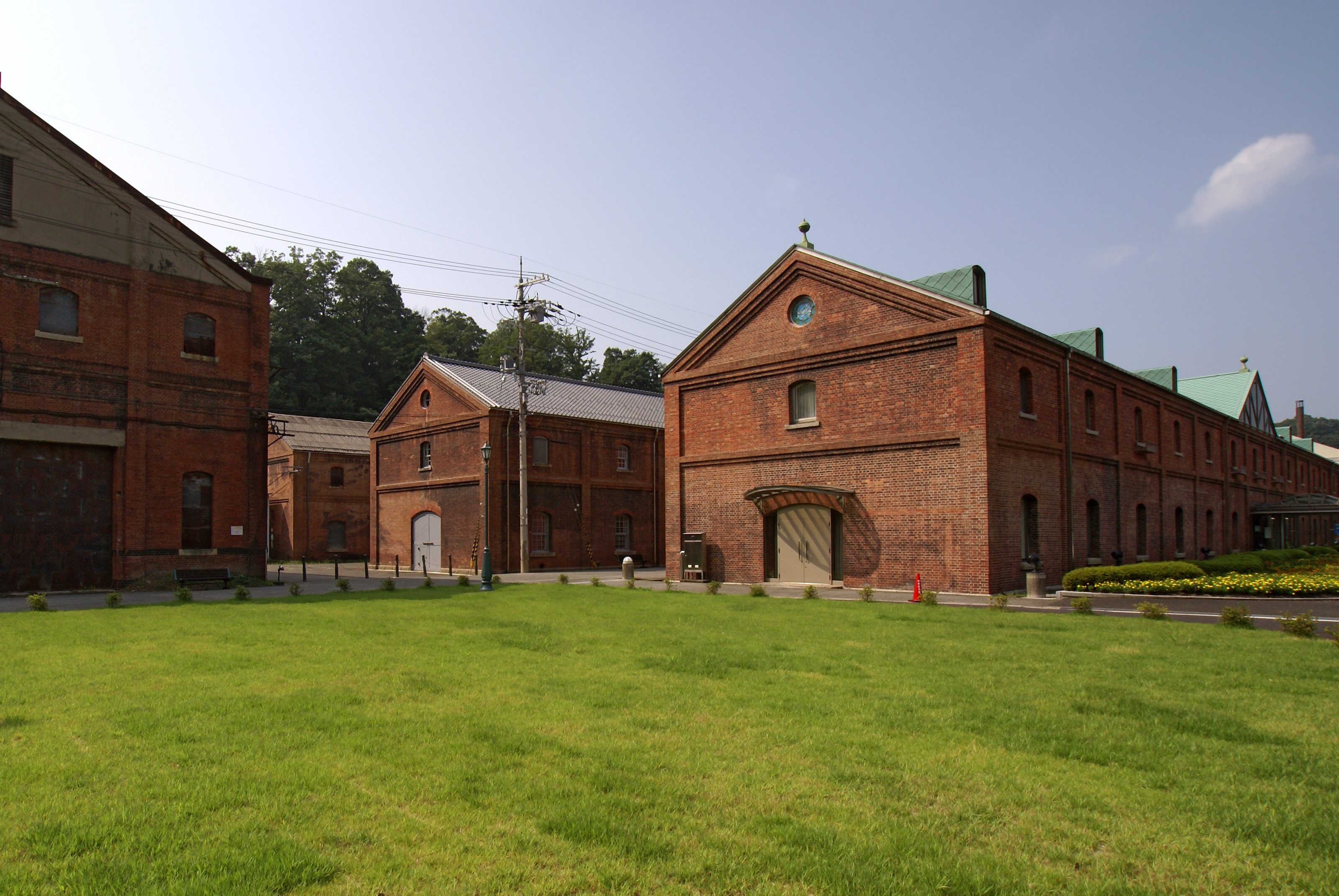 Maizuru Red Brick Warehouses in Maizuru, Kyoto prefecture, Japan